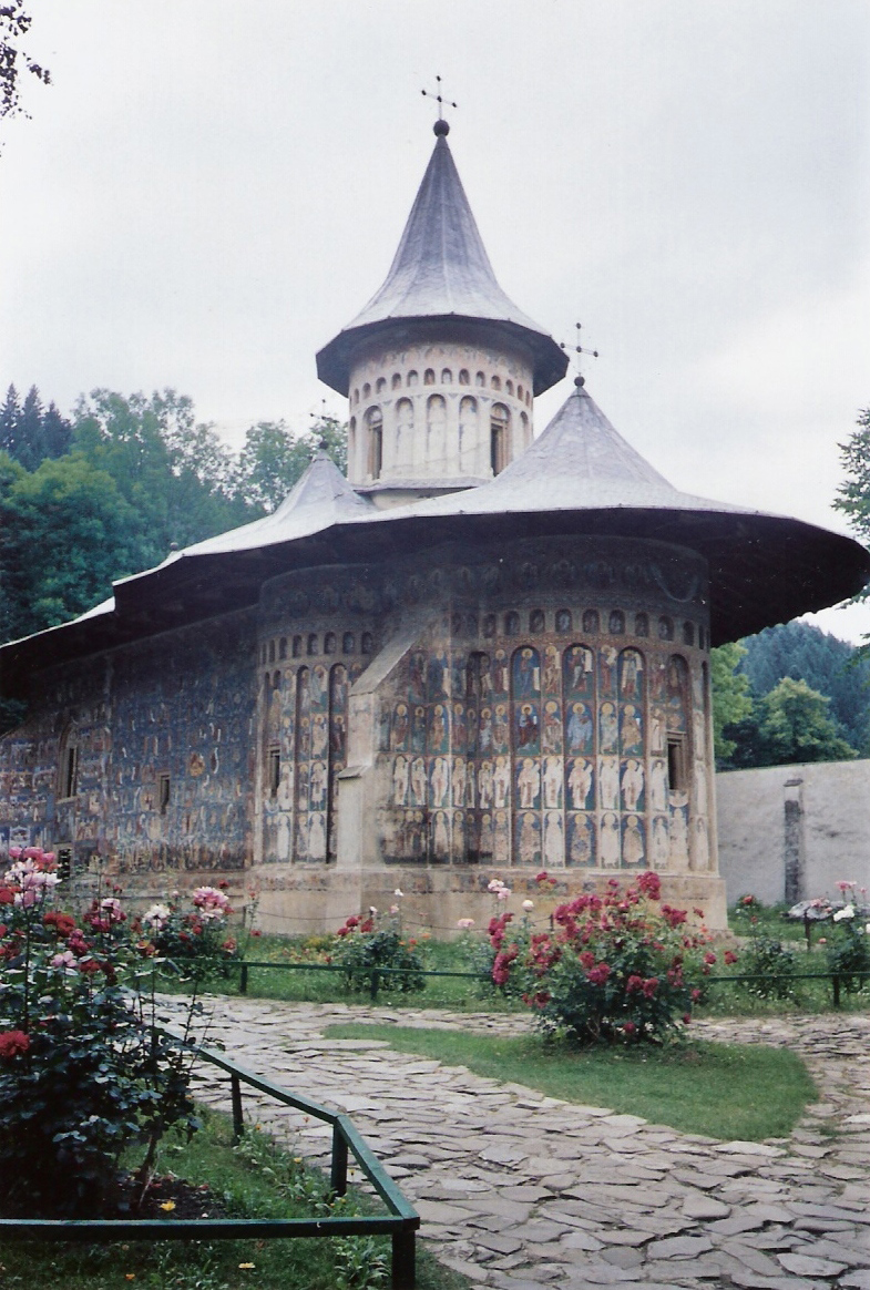 Voroneţ Monastery, Romania